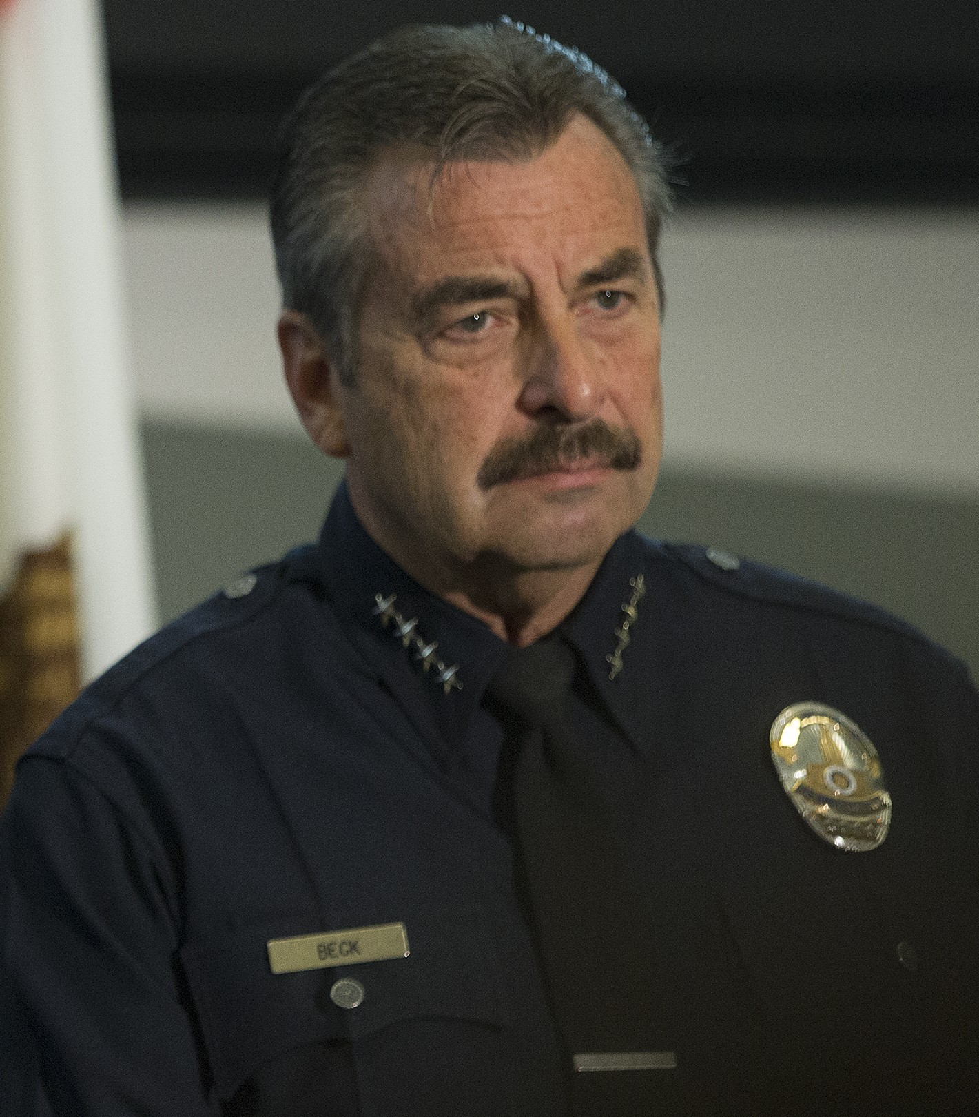 Los Angeles Mayor Eric Garcetti and LAPD Chief Charlie Beck discuss 2013 crime statistics for the city of Los Angeles. 1/13/2014